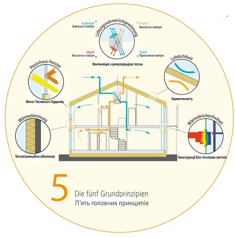 5 важливих технологічних складових Пасивного Будинку